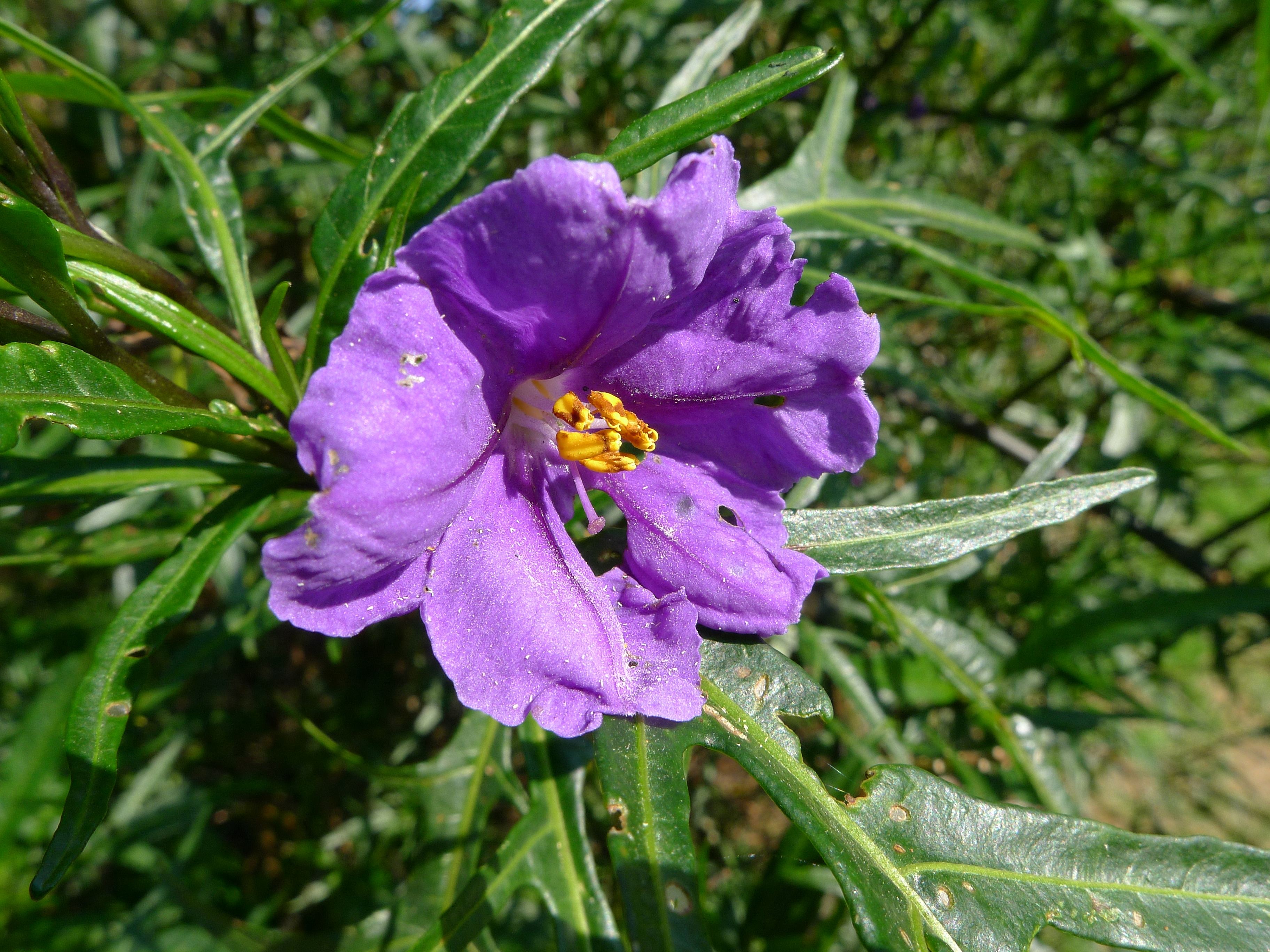 A species of Solanum. Ashbrook Park, Rowville Victoria Australia, September 2011.